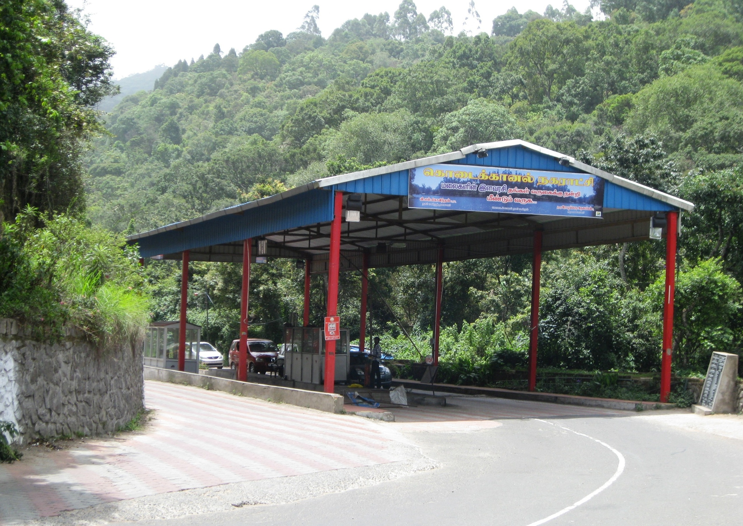 Kodaikanal Toll House.